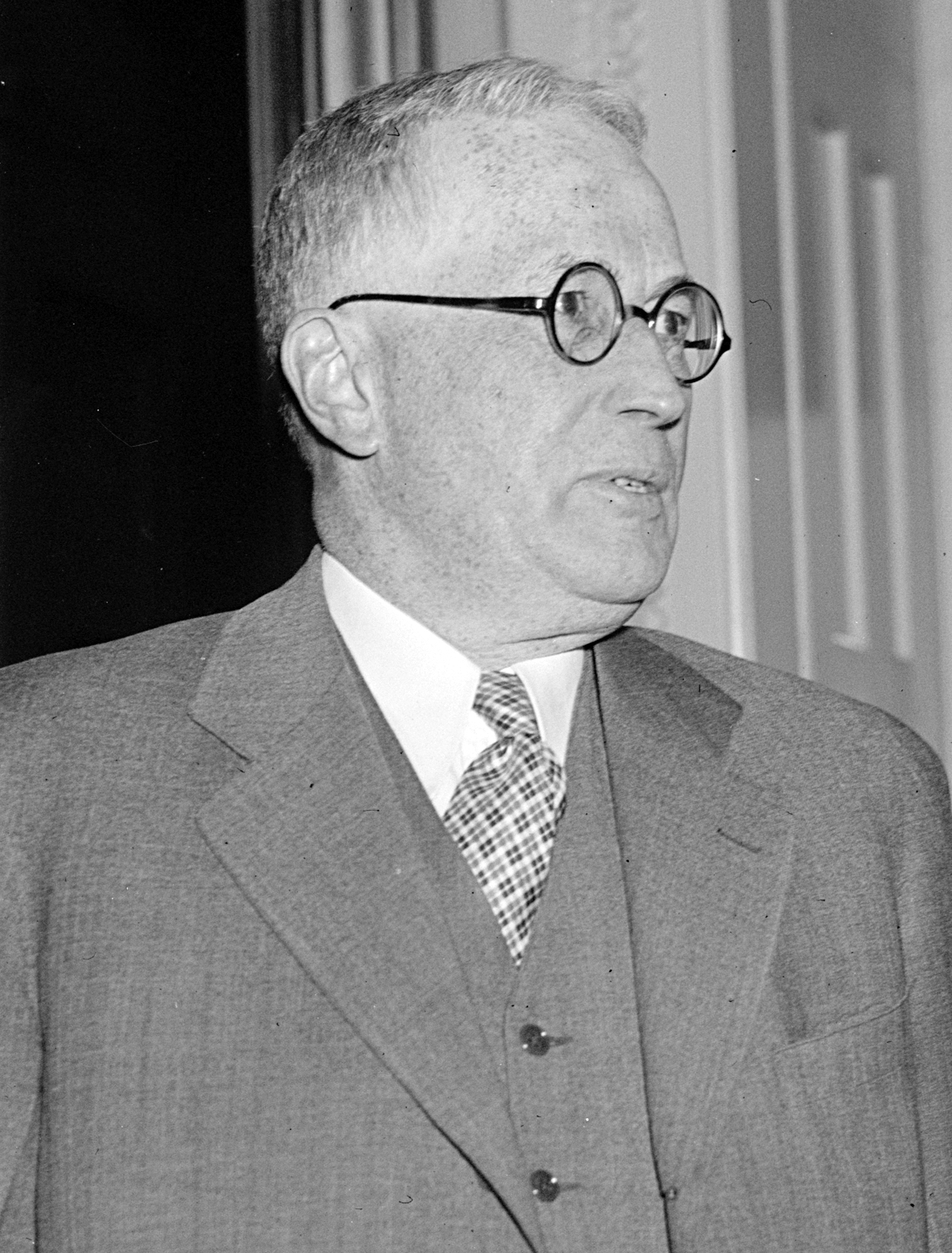 Louis Ludlow, US Representative from Indiana